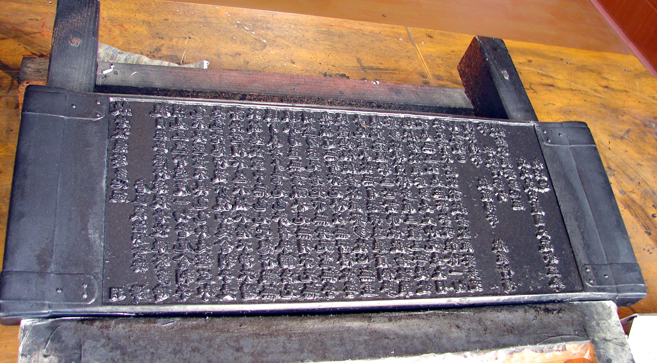 Copy of a Tripitaka Koreana woodblock. Used to allow visitors to make an inked print of the woodblock on the Haeinsa complex grounds. See: File:Prajnyaapaaramitaa Hridaya.png for image of woodblock print.